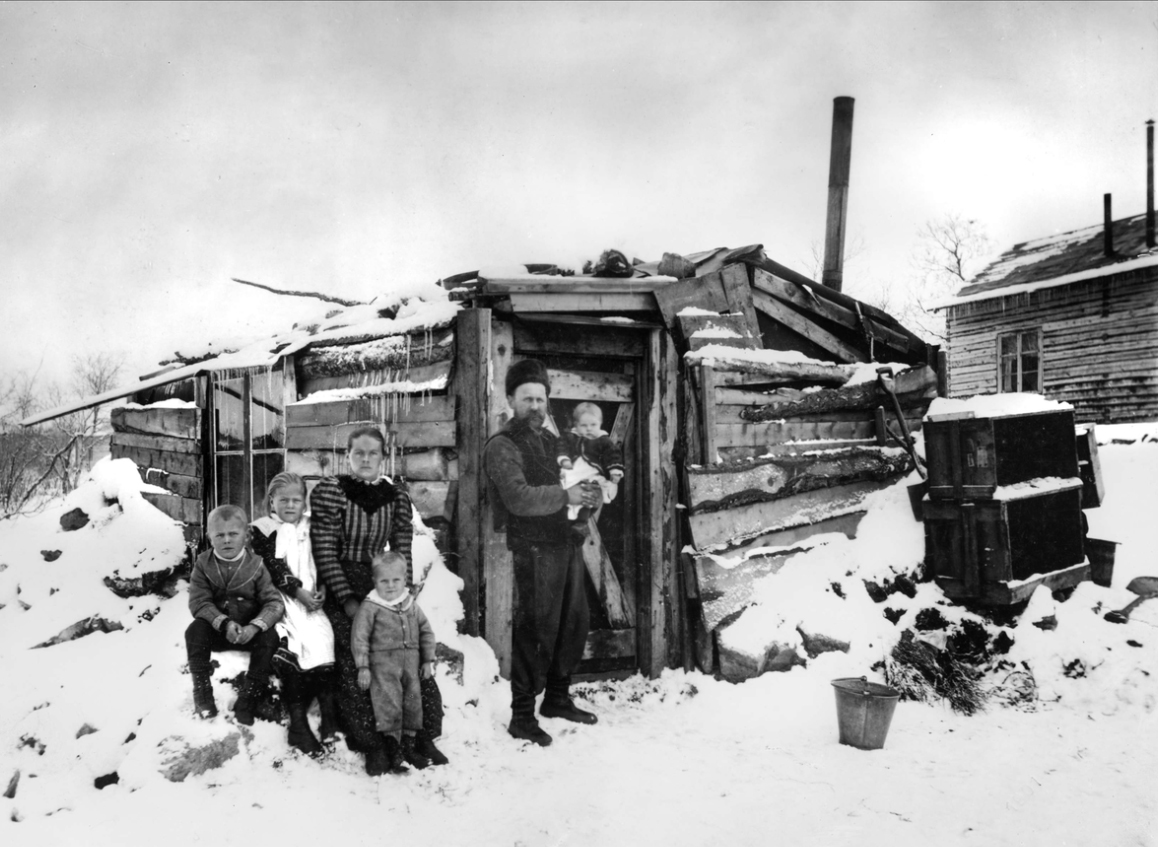 The Söderberg family in front of their home at the site where Kiruna was built